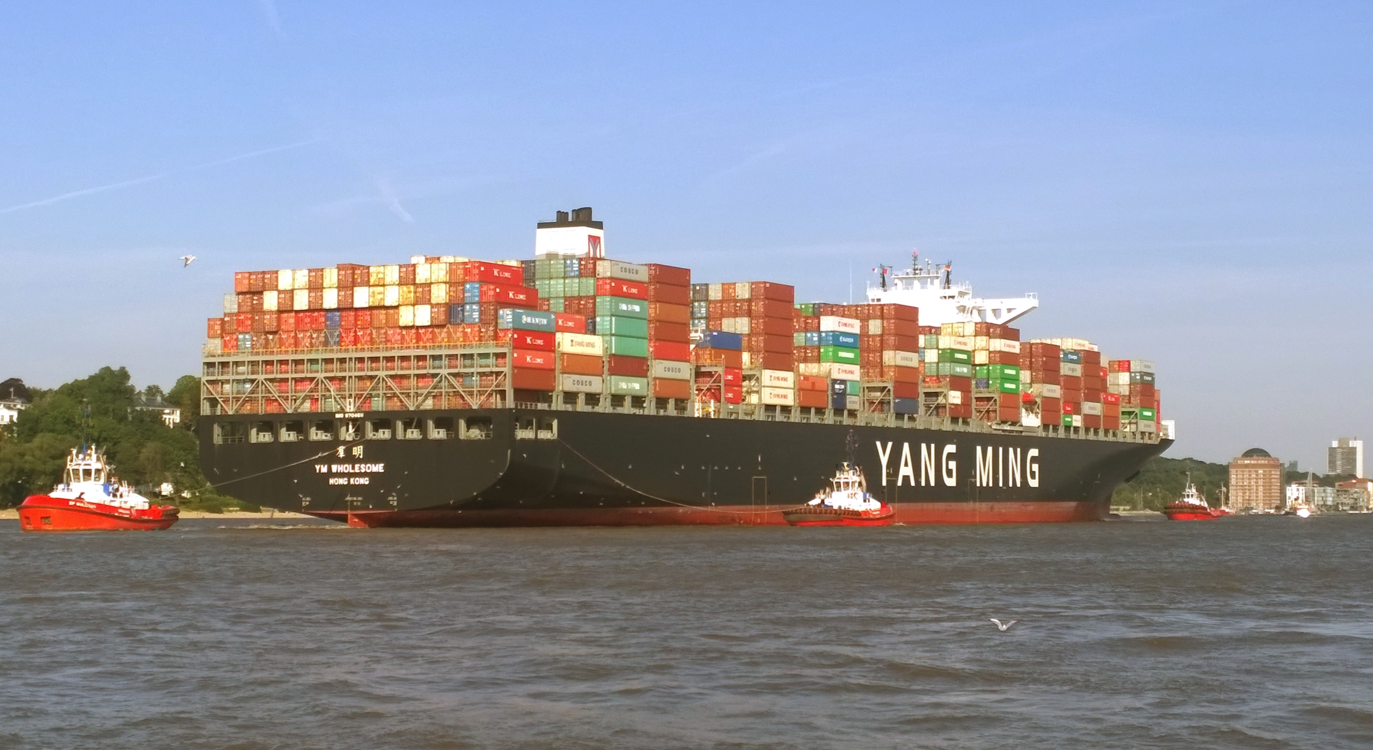 Container ship YM Wholesome on the river Elbe with the port of destination Hamburg in August 2015